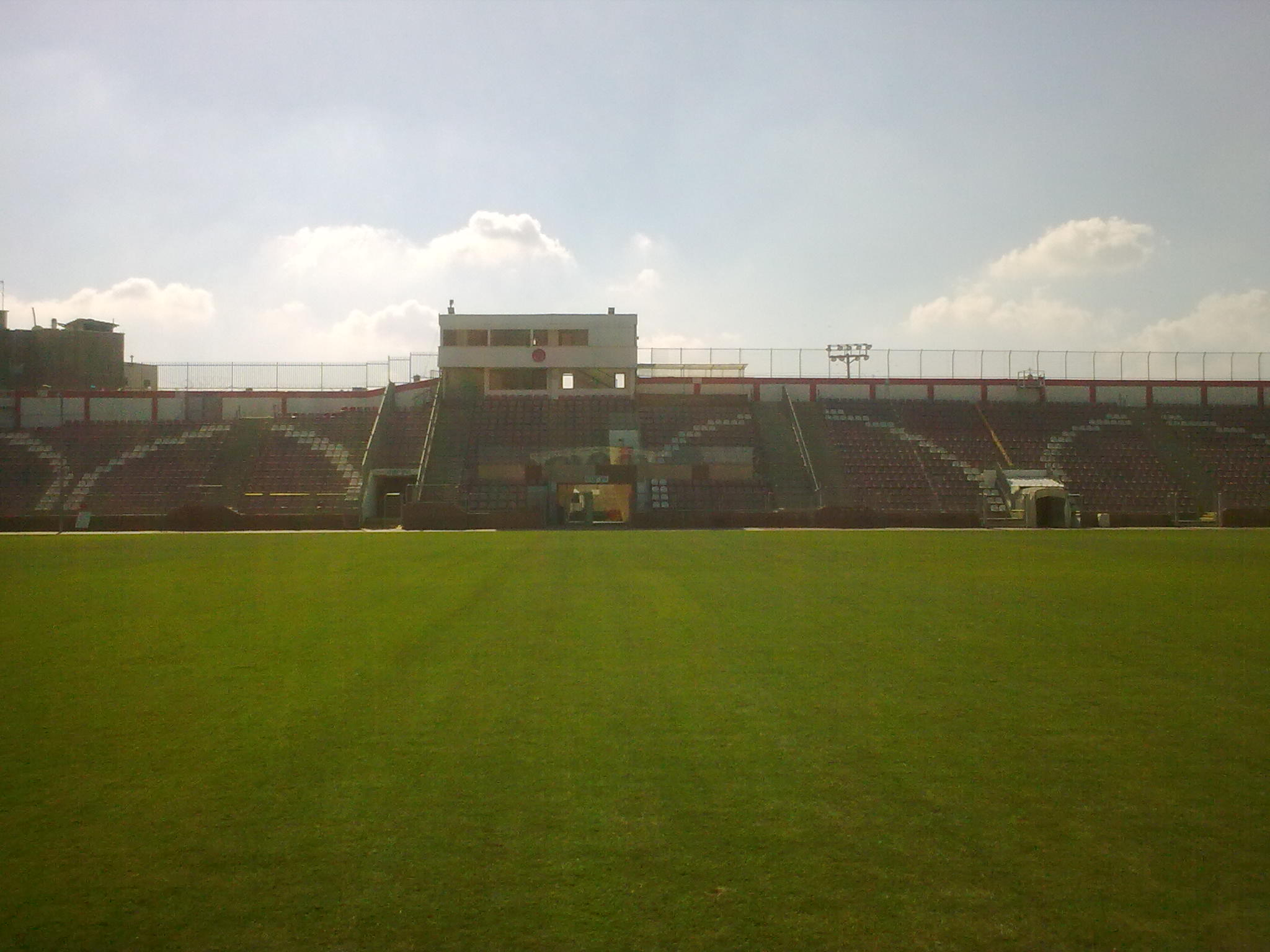 Doha Stadium, Sakhnin